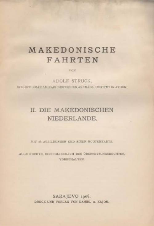 Makedonishe Fahrten 1908